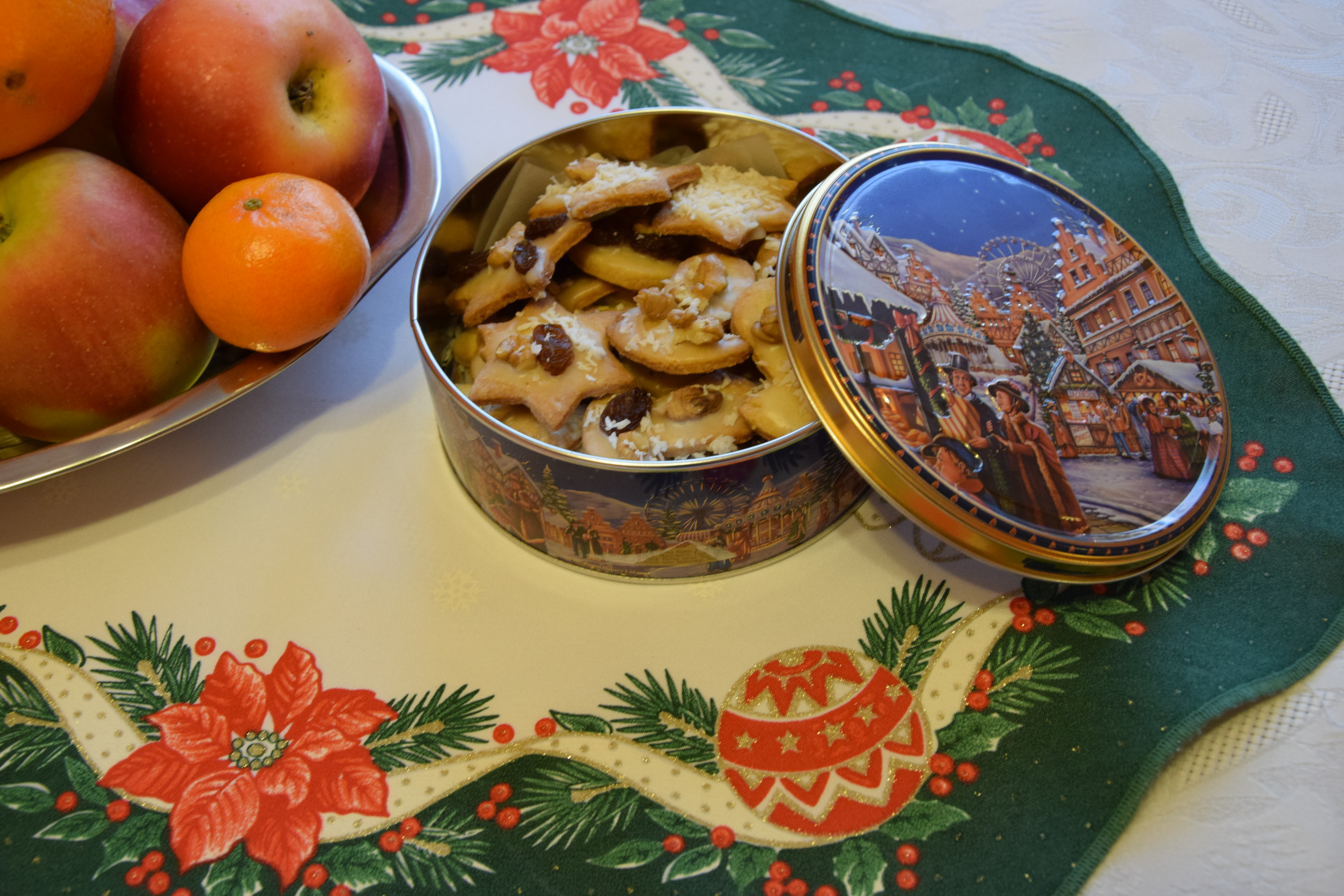 Christmas cakes in a can